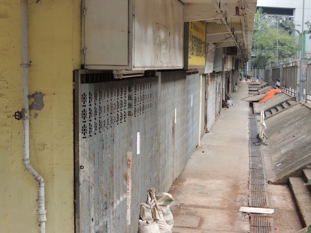 Chai Wan Factory Estate